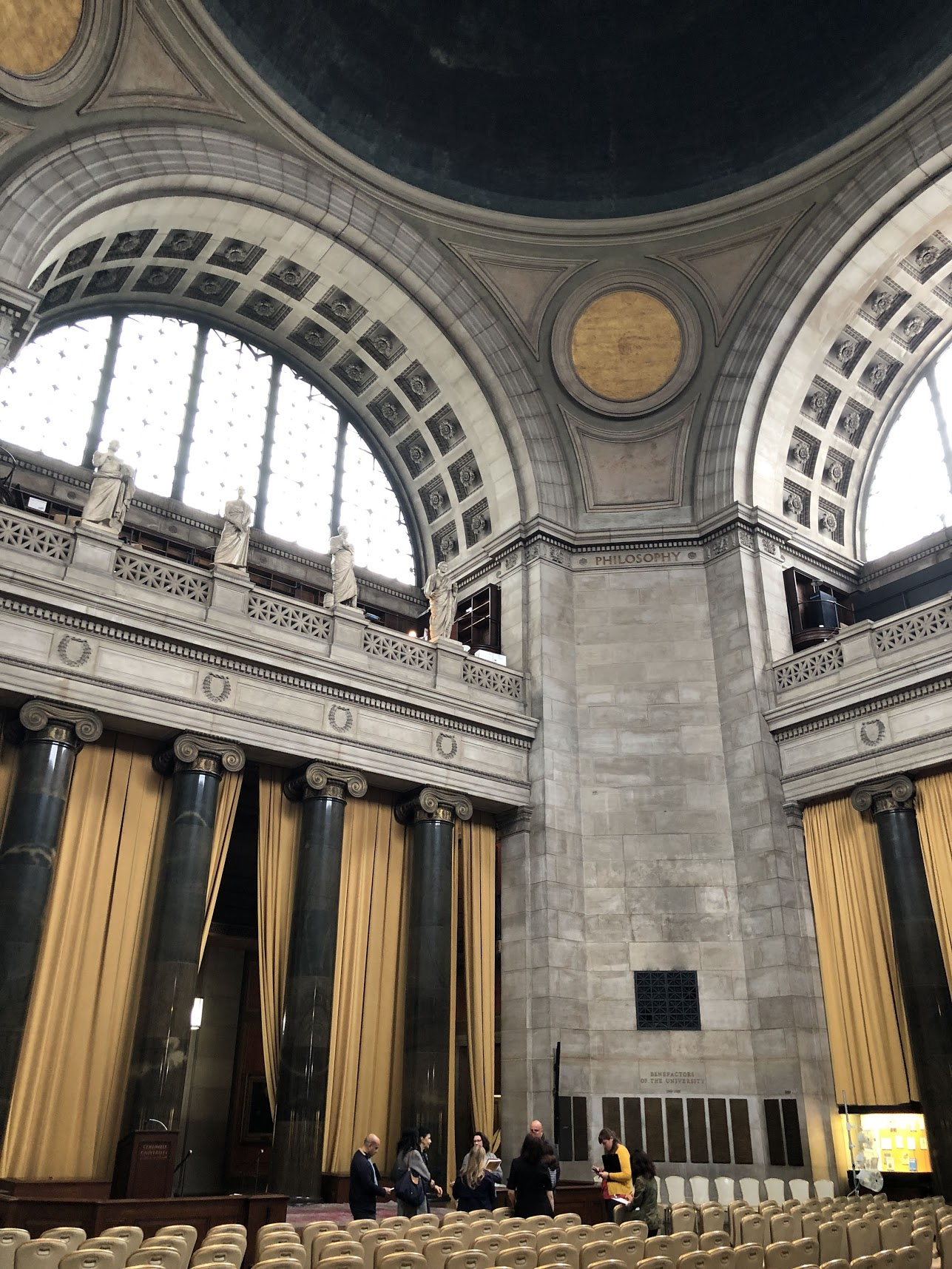 Inside of the Low Library (Visitor center), Columbia University